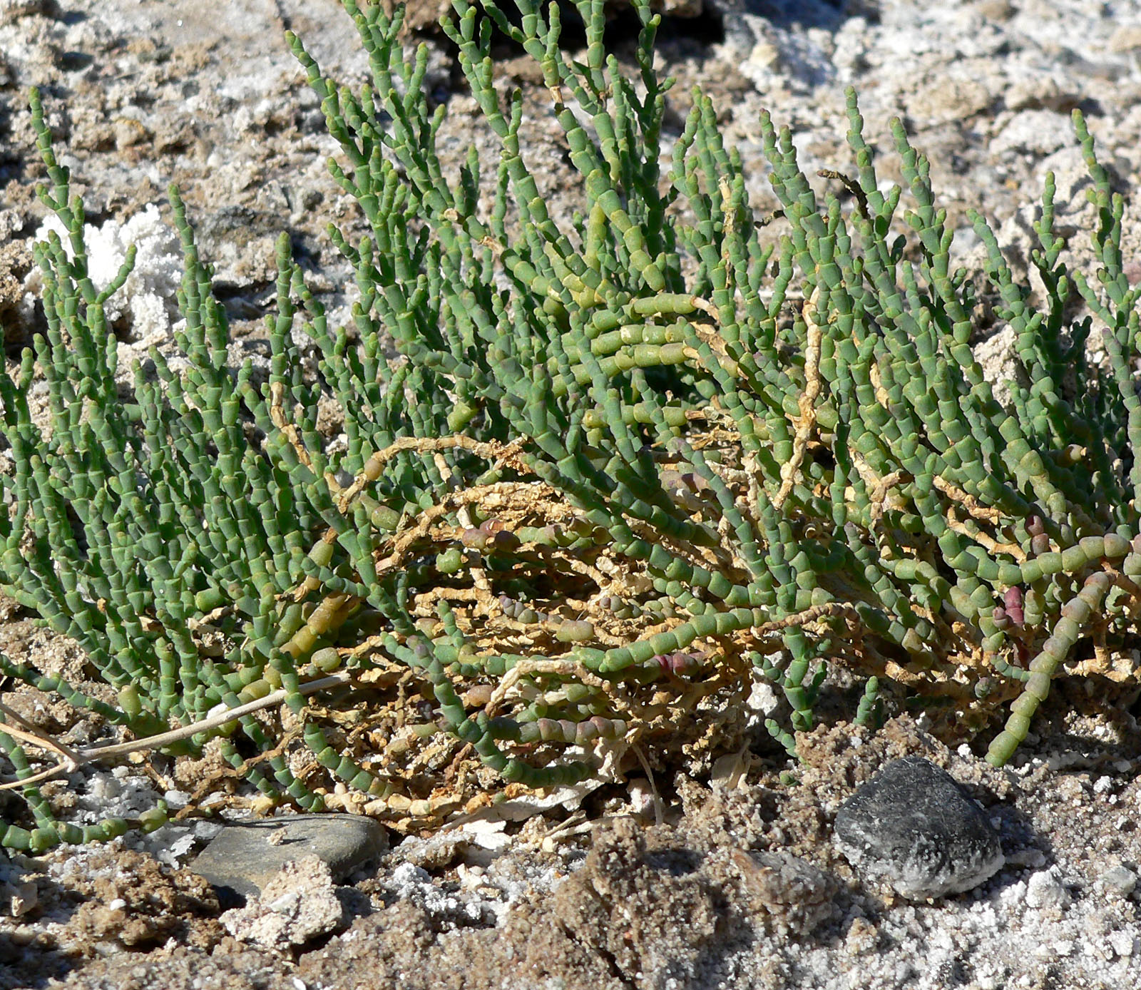 Allenrolfea_occidentalis (iodine bush) at Badwater, Death Valley